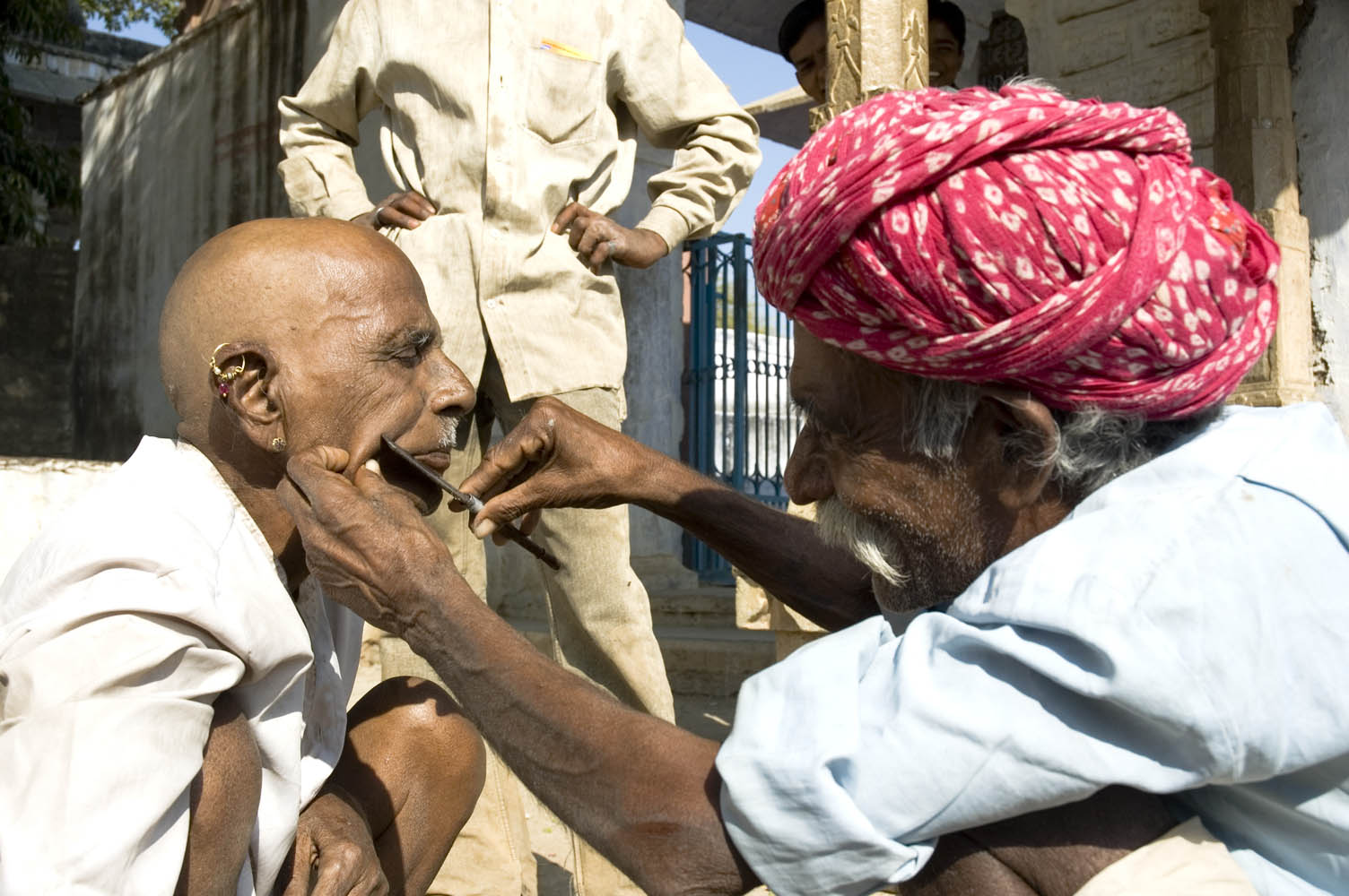 Roadside barber delivering his services to rural customer in Bassi Village in Chittorgarh District, Rajasthan. The guy at the background is waiting his turn.